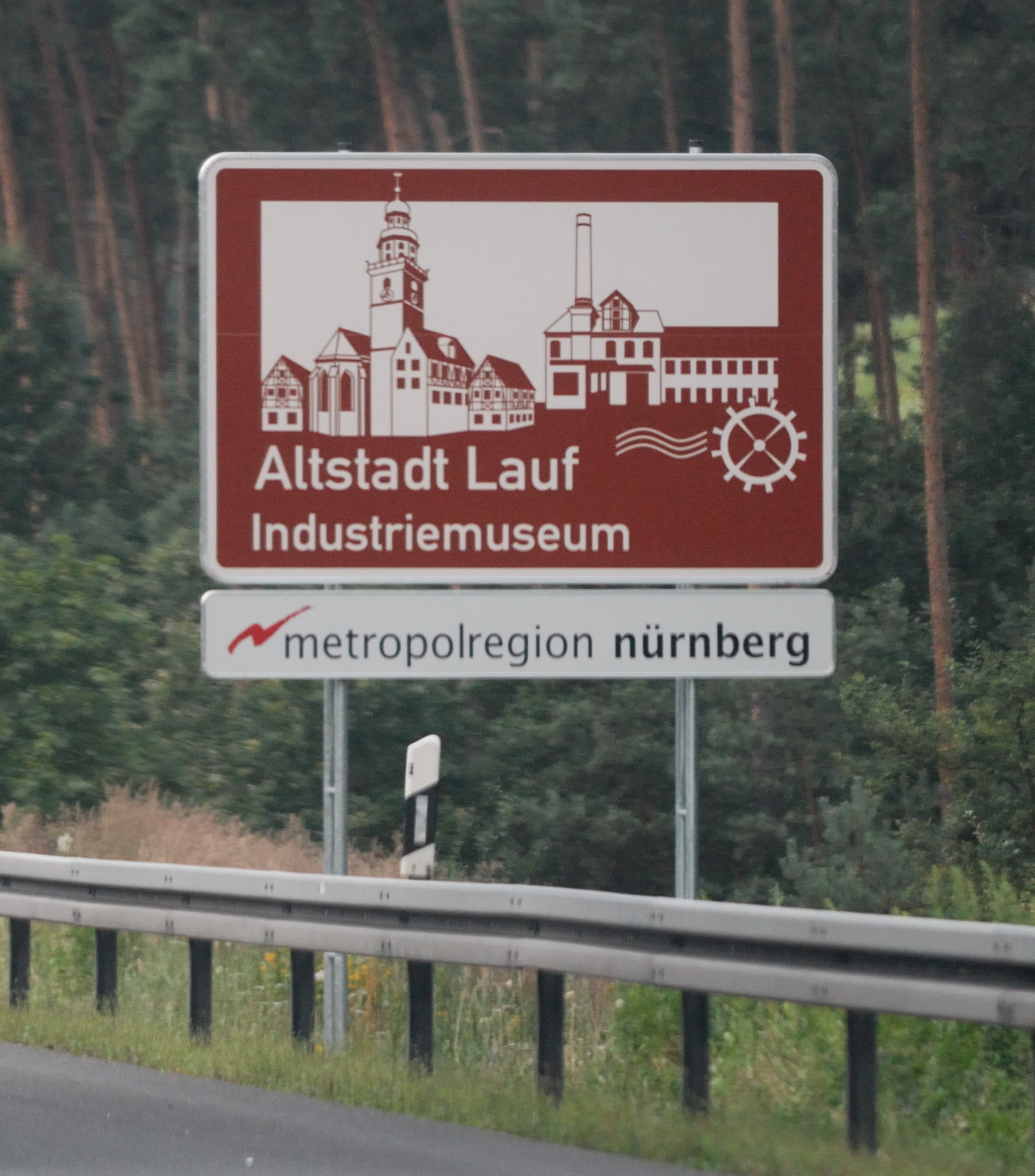 Road sign for the historic city of Lauf and its Museum of Industry. Road shot from A 9.